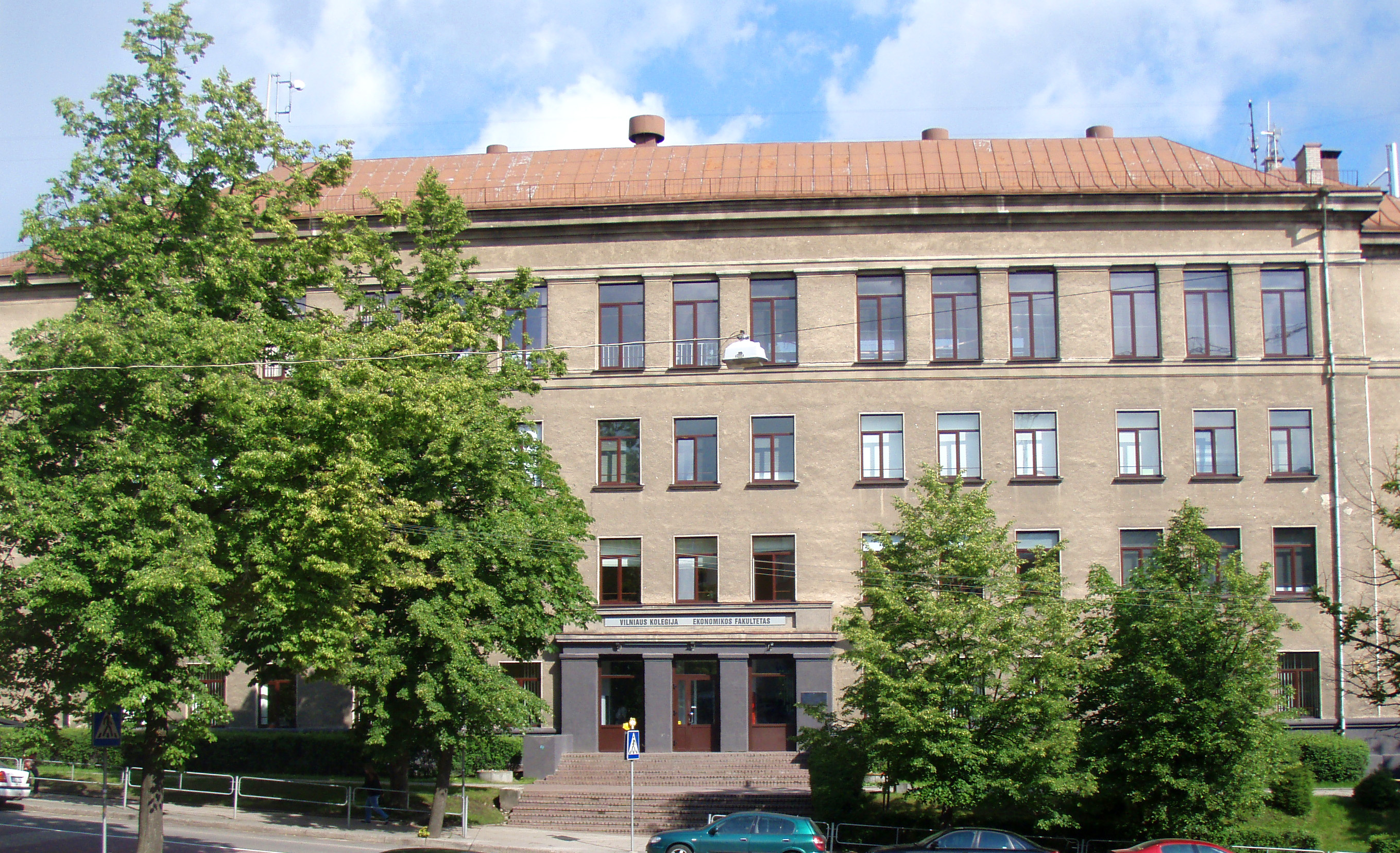 Vilnius college, economics faculty